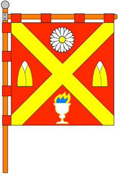 Flag of Andrushivka, Ukraine